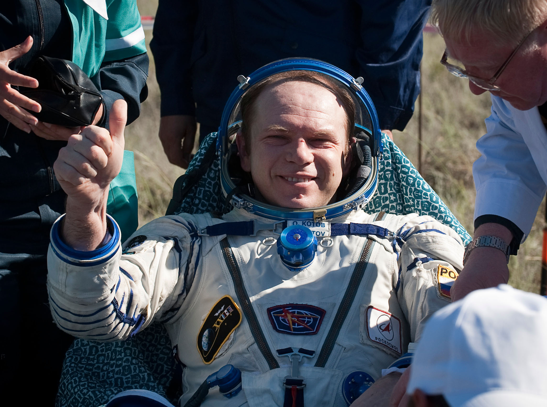 Russian cosmonaut Oleg Kotov, Expedition 23 commander, signals success with his right thumb while sitting in a chair outside the Soyuz TMA-17 spacecraft just minutes after he and two crewmates landed in their capsule near the town of Zhezkazgan, Kazakhstan June 2, 2010. Kotov along with NASA astronaut T.J. Creamer and Japan Aerospace Exploration Agency astronaut Soichi Noguchi, both flight engineers, are returning from six months onboard the International Space Station where they served as members of the Expedition 22 and 23 crews